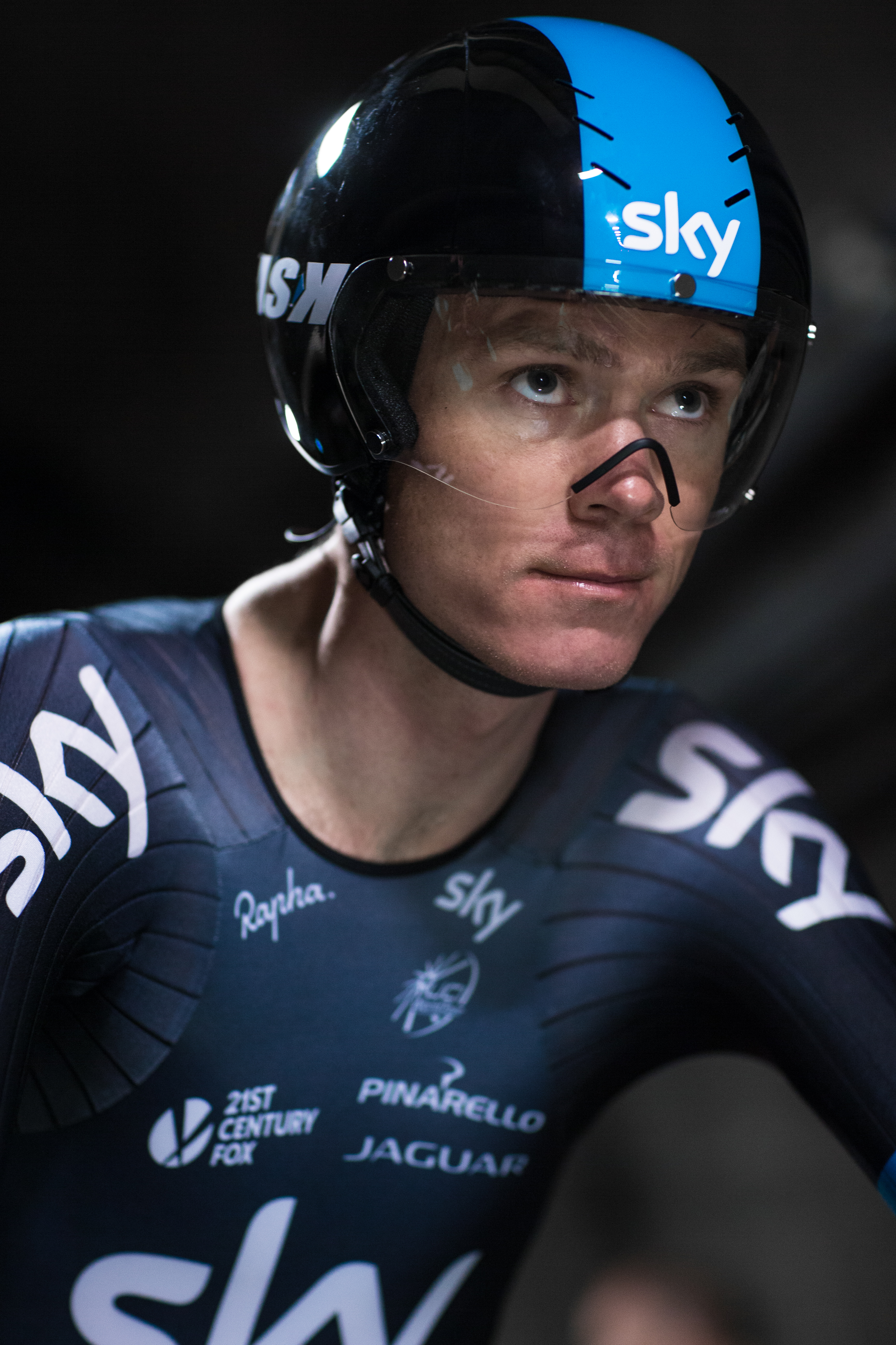 Team Sky rider and Tour de France Winner Chris Froome crosses the English Channel by bicycle, using the Eurotunnel service tunnel and support by Jaguar Cars. As the world’s leading professional cyclists depart the UK after three days of enthralling Tour de France action, Jaguar has released a short film titled “Team Sky – Cycling Under The Sea,” which documents the Team Sky leader riding from the Eurotunnel Terminal in Folkestone on England’s south-east coast, to Calais in France